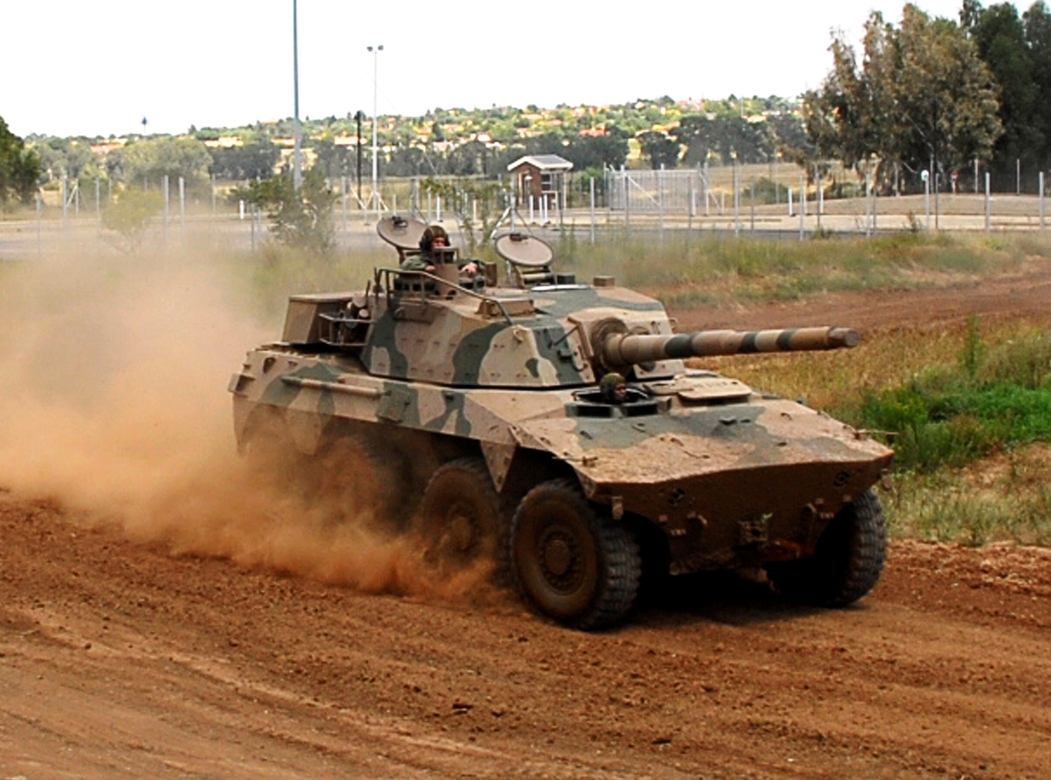 Rooikat of the South African army